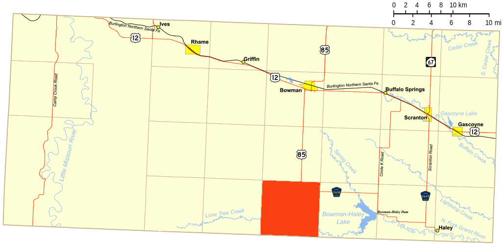 Map of Bowman County, ND, with Ladd Township highlighted